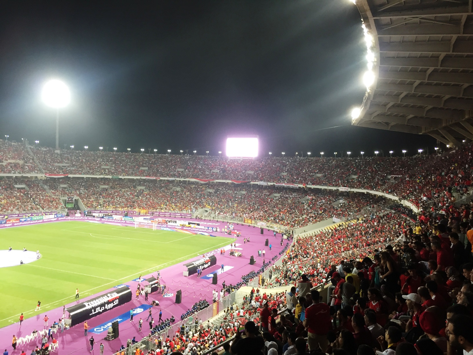 View of Borg El Arab stadium in Alexandria in the match Egypt and the Congo